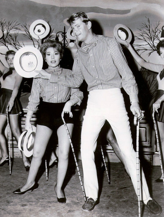 Publicity photo of Troy Donahue and Margarita Sierra from the television program Surfside 6.